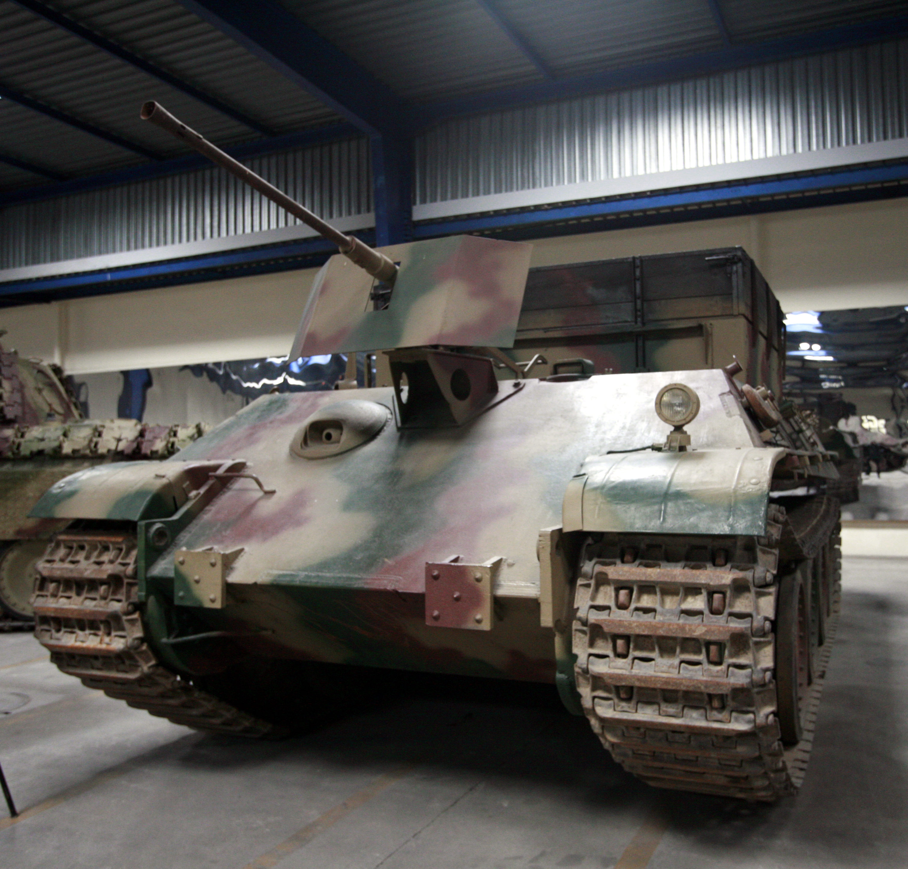 Bergepanther. On display at Saumur Général Estienne museum.